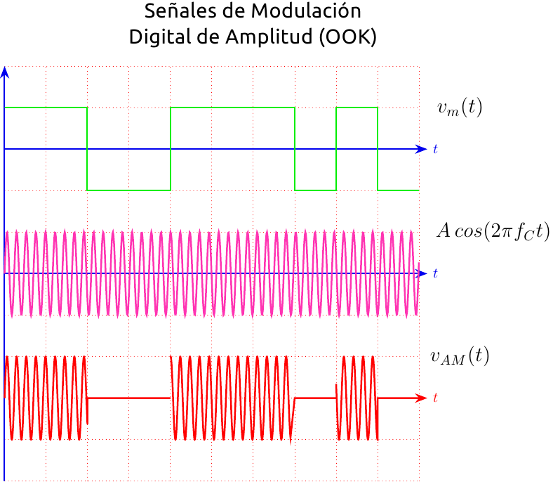 Time diagram of signals for Digital Amplitude Modulation (OOK, On-Off Keying)